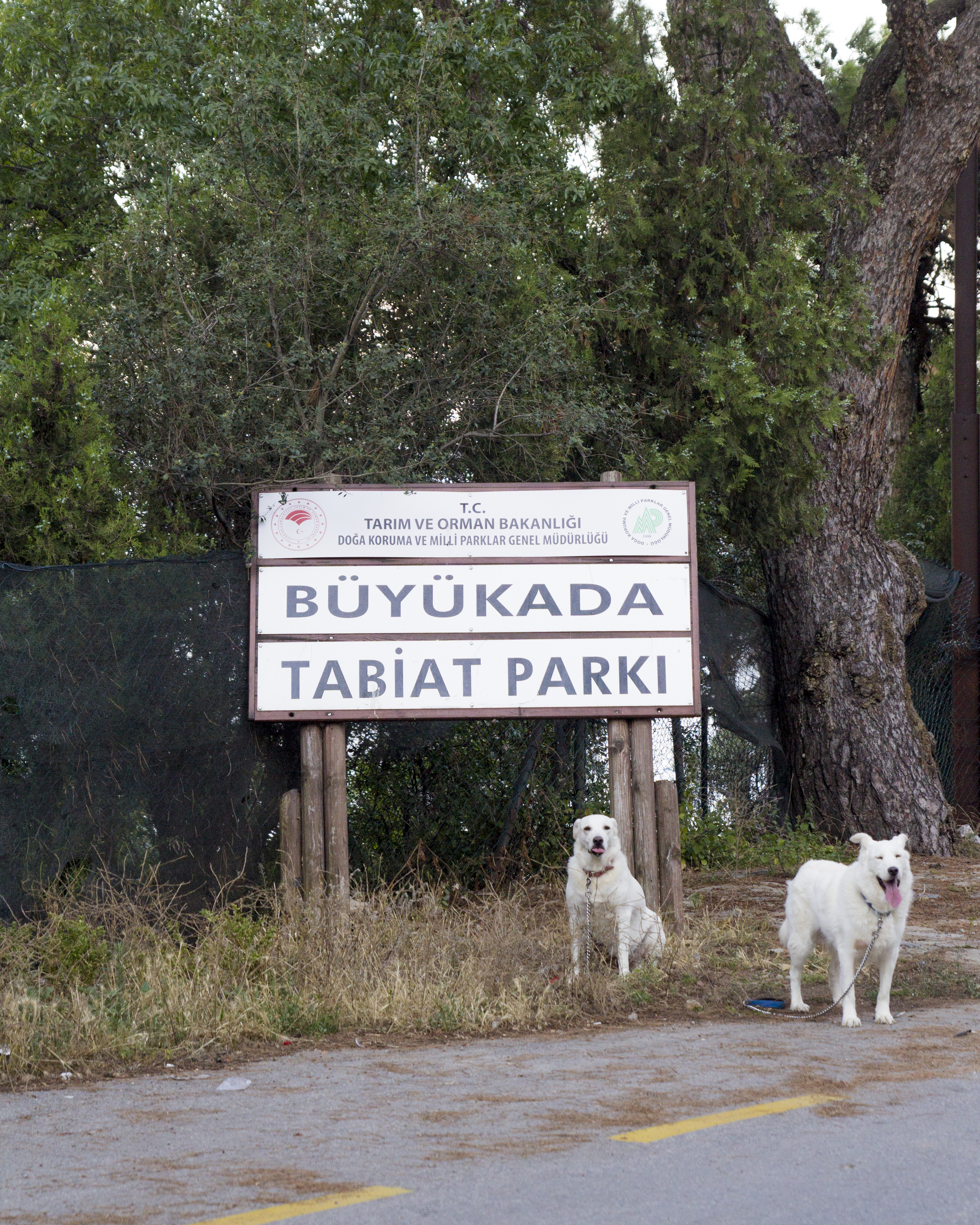 This is the entrance and sign of Büyükada Nature Park with two beautiful dogs having fun around it.